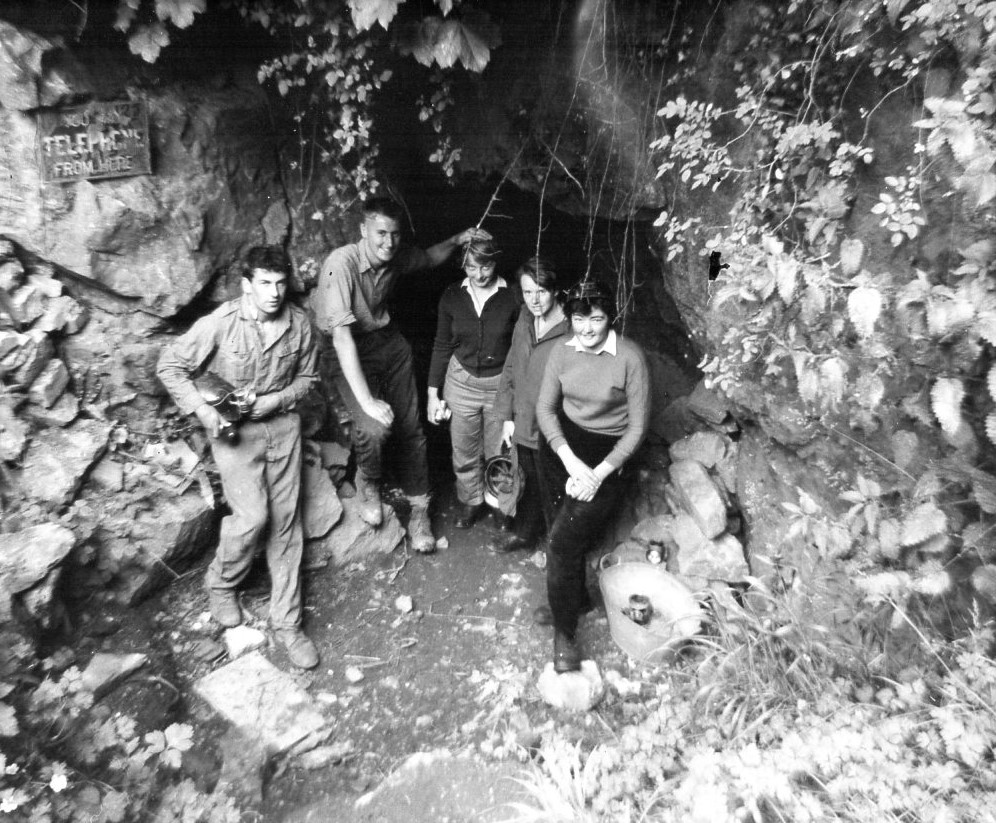 The entrance was in an old quarry called Baker's Pit which, in the early sixties, was used as a council rubbish tip and became filled. In the photo are some students from Exeter University.